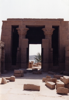 Near Trajan's kiosk at Philae